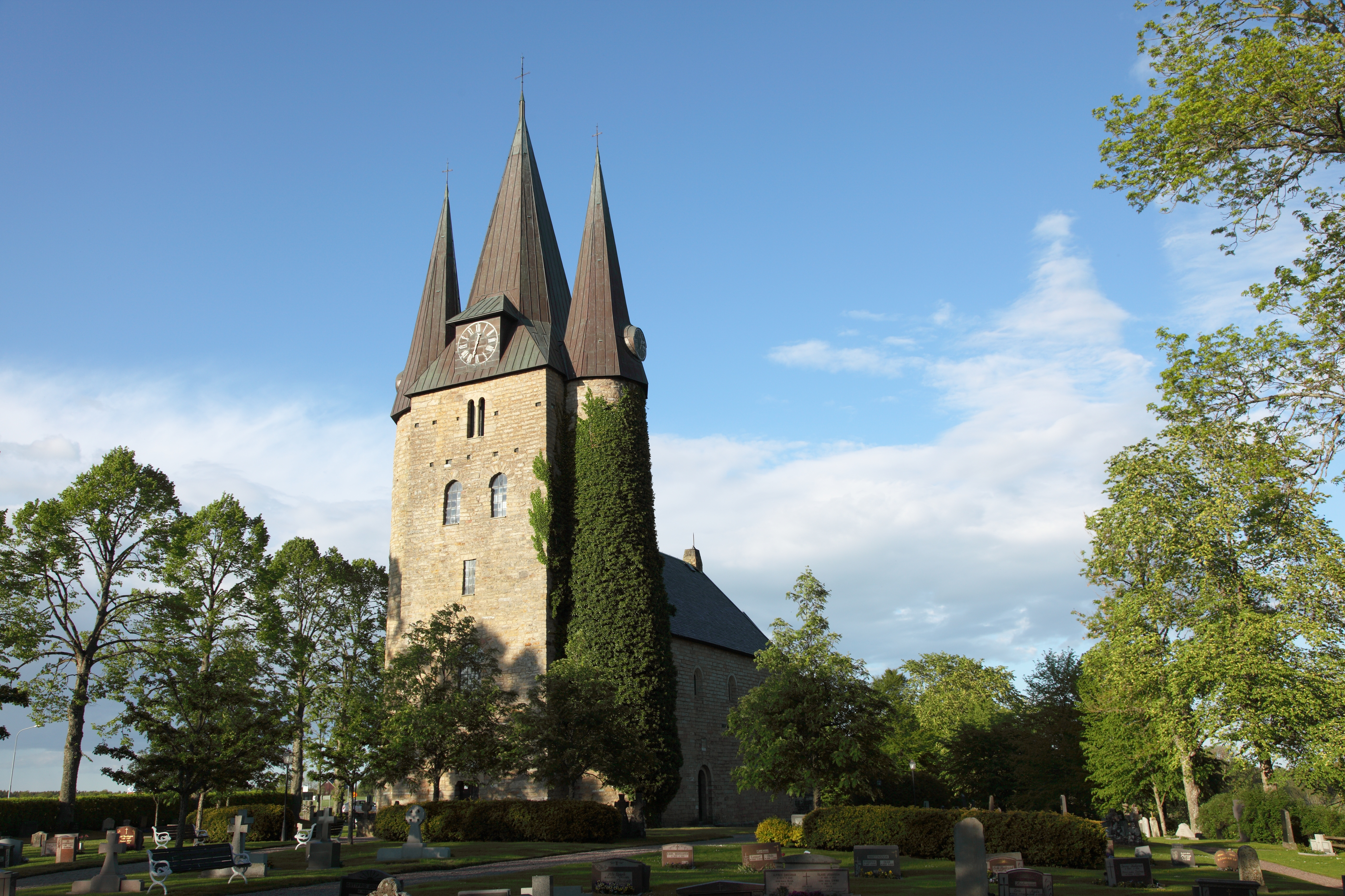 Husaby kyrka. A church near Lidköping